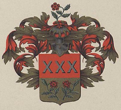 coat of arms